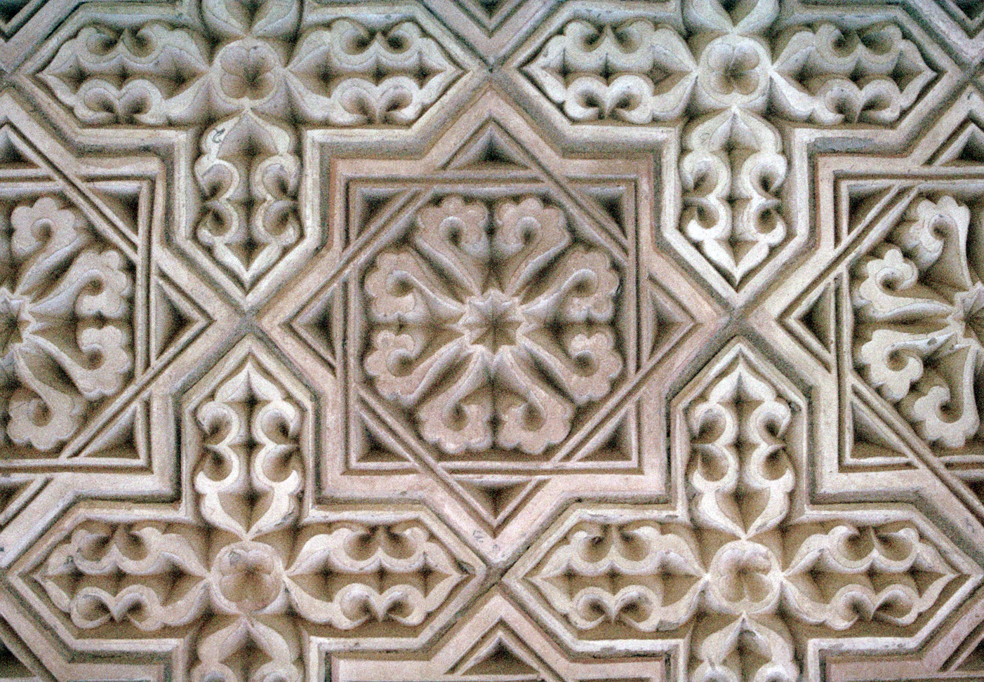 Aisha Bibi Tile Detail